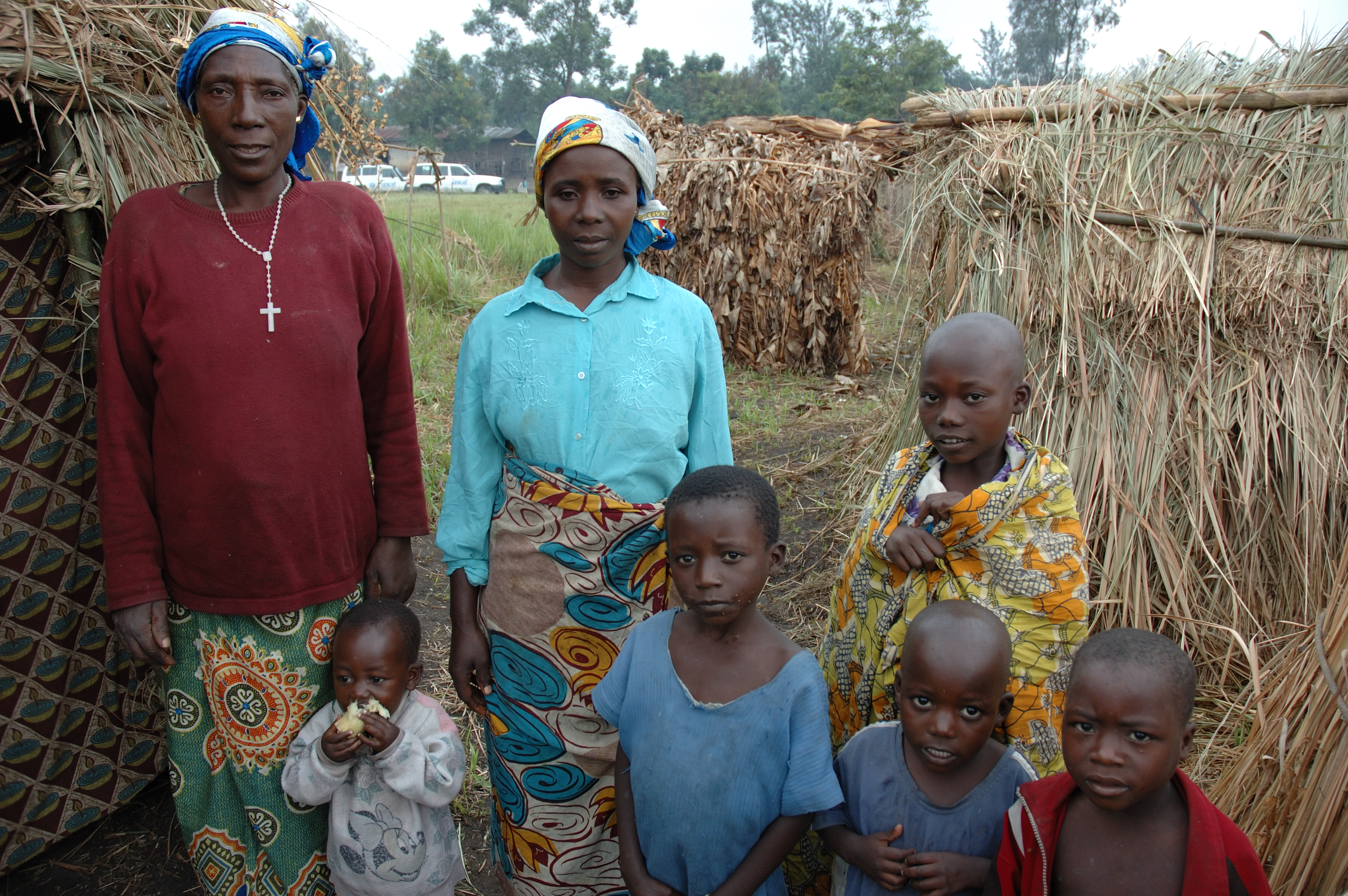 Cecilia and her family in Rutshuru, North Kivu, Democratic Republic of the Congo.